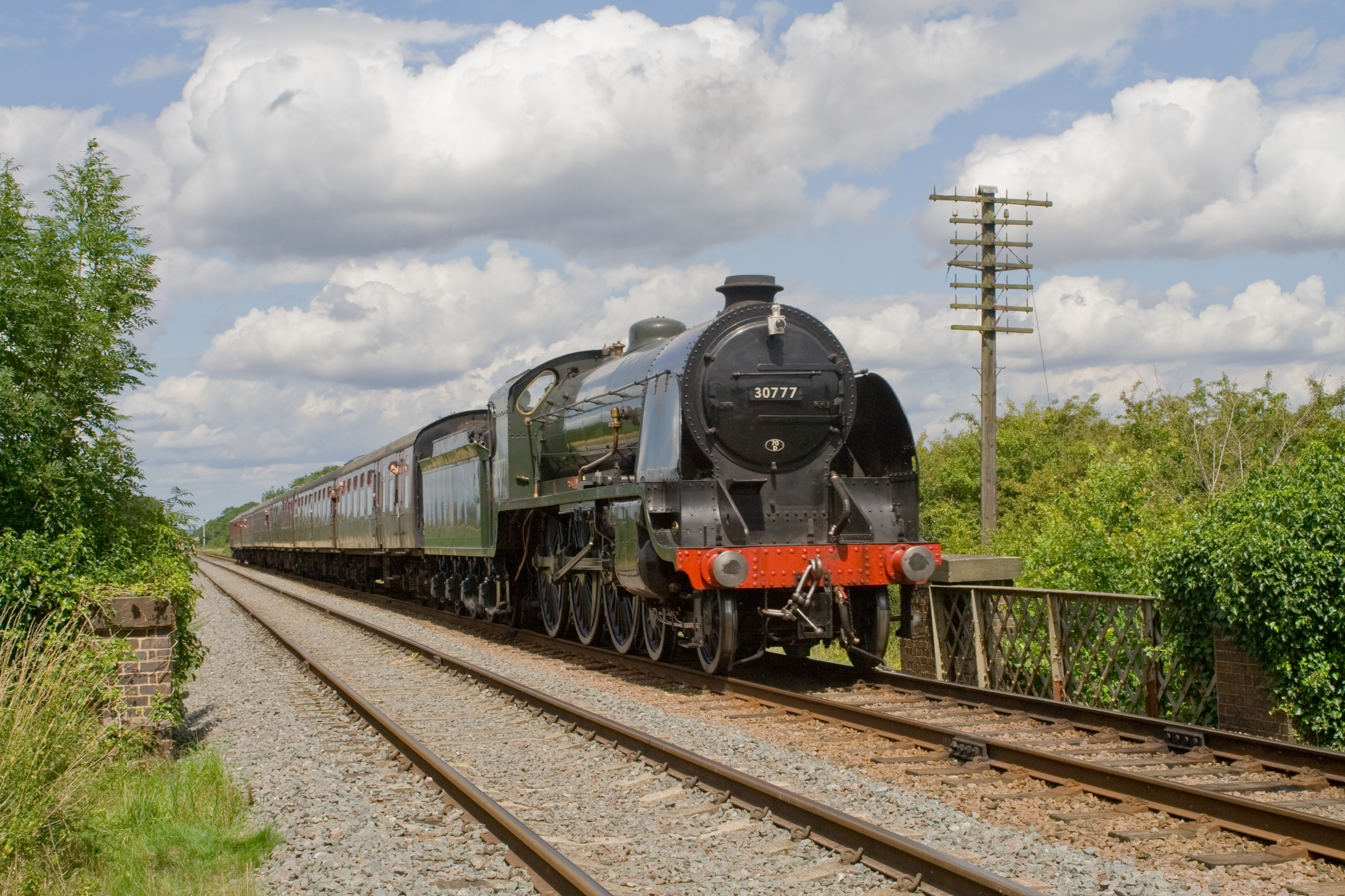 30777 Sir Lamiel passing over Vicary Farm occupation bridge at the up end of the Quorn Straight. I edited this in a trial version of Photoshop Elements which cured the problems I was having but getting the exposure right. Unfortunately flickr would only then not upload the jpeg2000 format that PSE wanted to export it in so I had to save it as a TIFF and then run it through Paint Shop Pro. Strange.